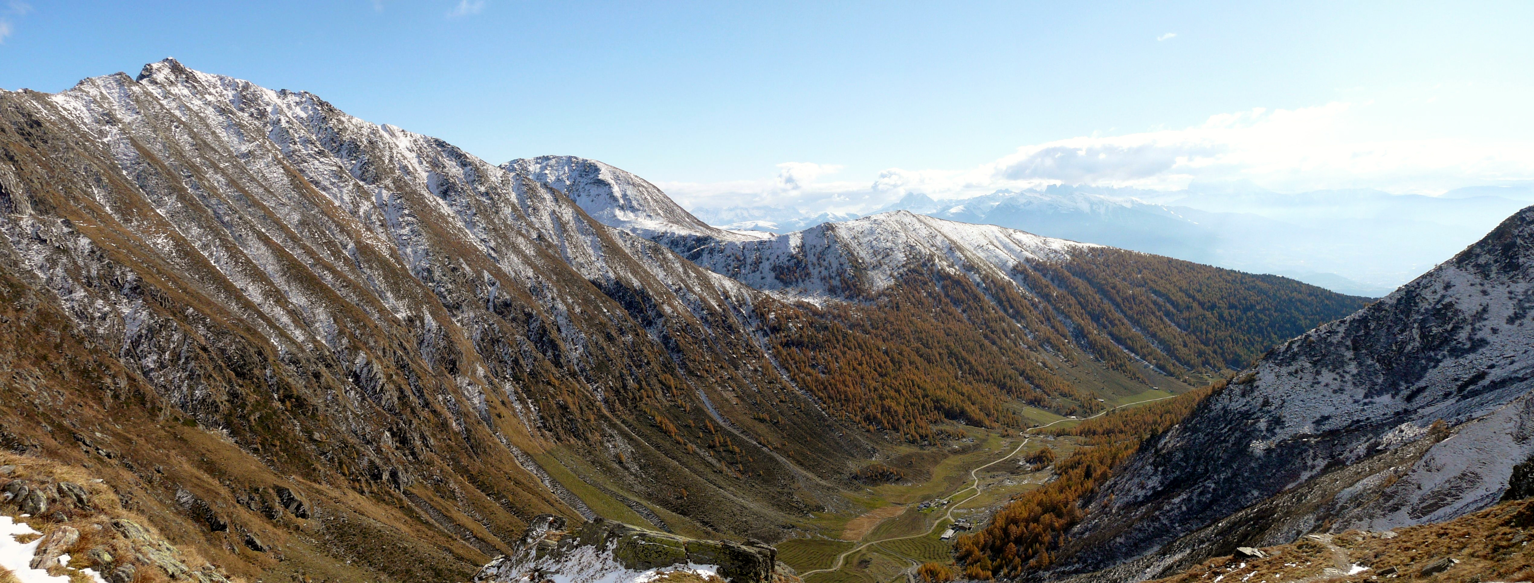 Altafossa/Altfass valley, South Tyrol (Italy)